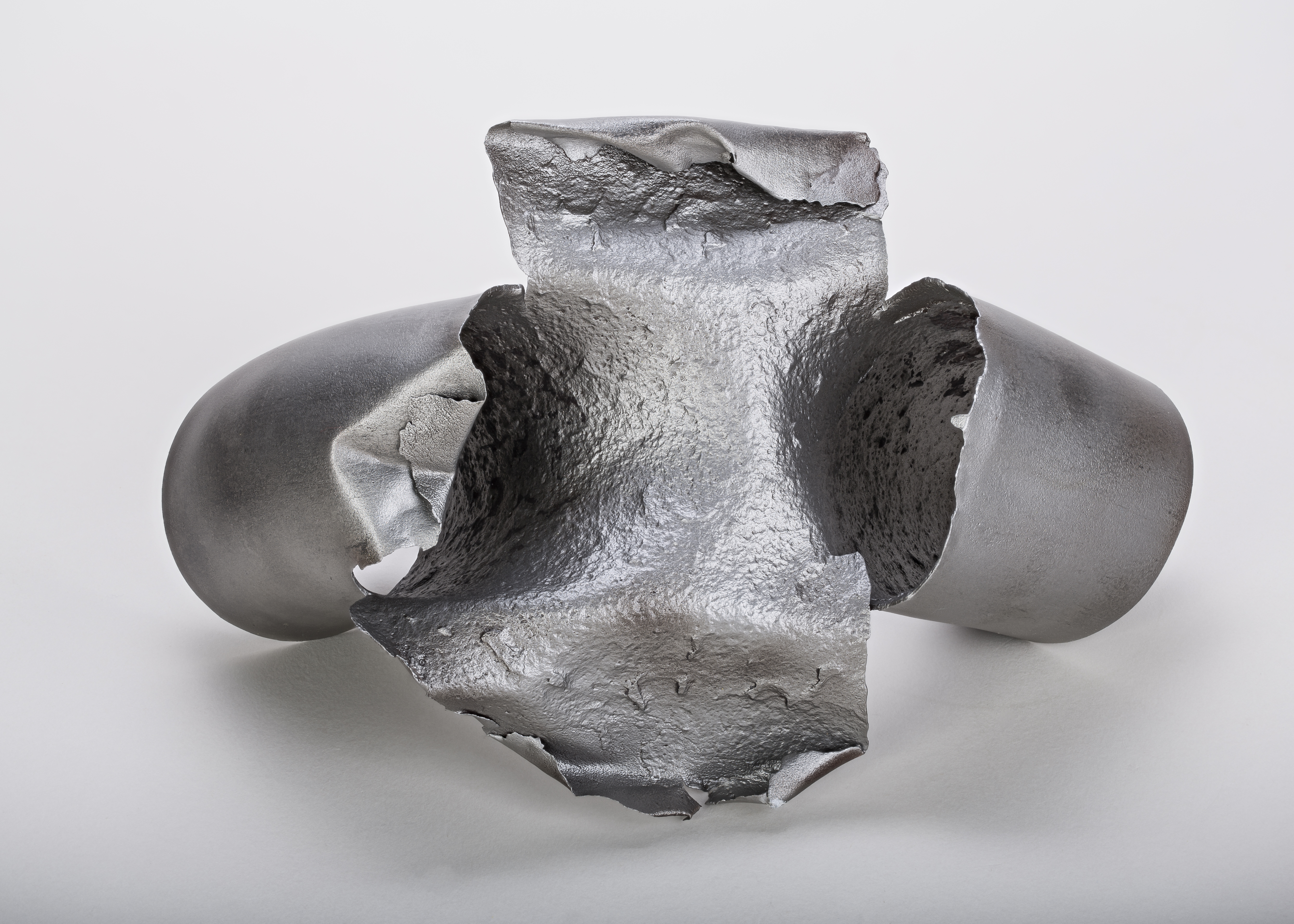 36 bar steam pipeline of a soot blowing system, the pipe bend burst as a consequence of internal erosion. Material: 15 Mo 3 (steel)